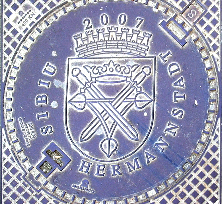 Bilingual sewer lid in Hermannstadt / Sibiu, Romania.